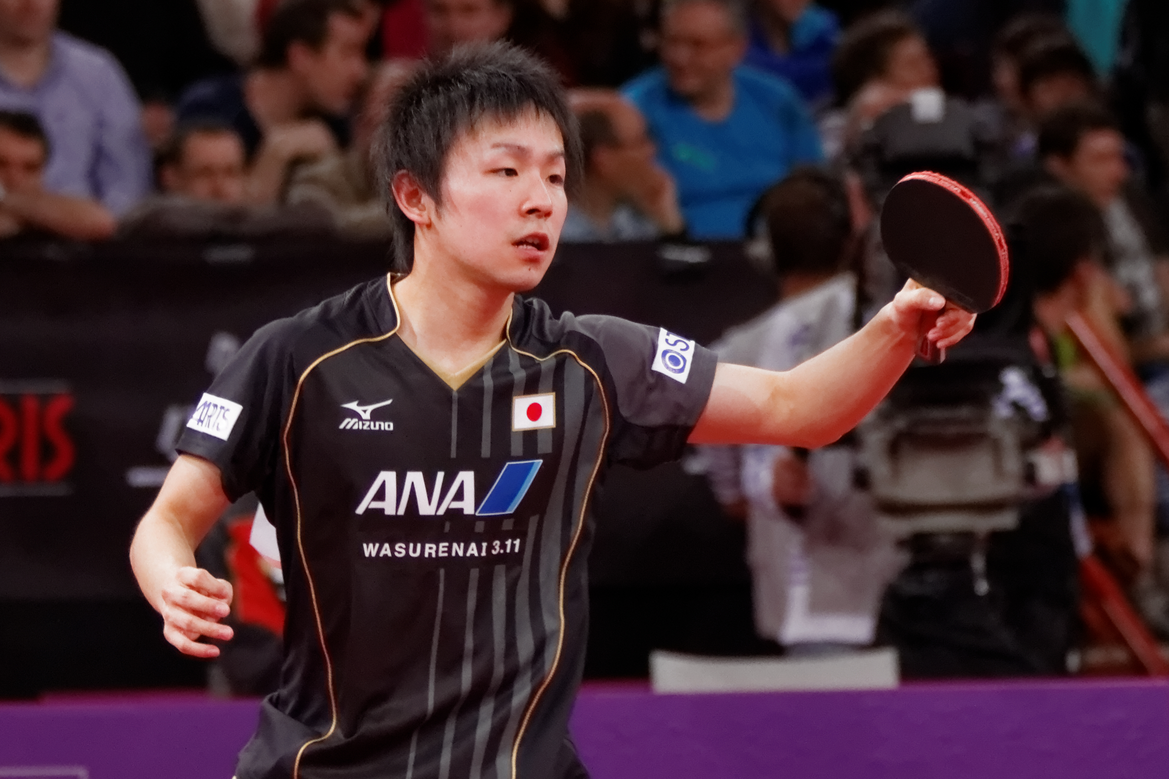 2013 World Table Tennis Championships, Paris. Men's Singles Round 4. Ma Long vs Koki Niwa.